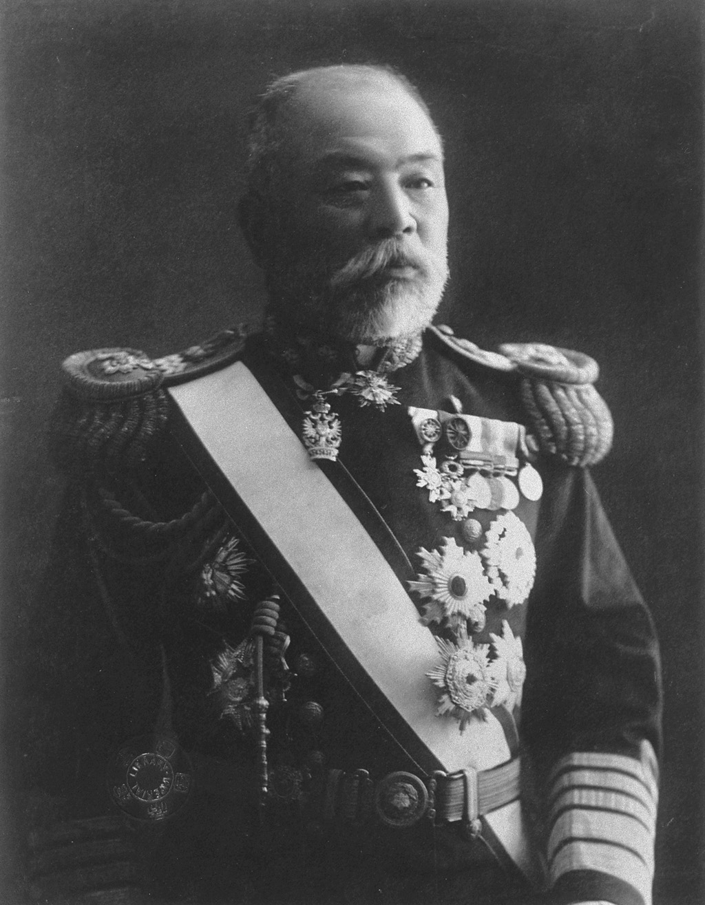 Portrait of Dewa Shigeto (出羽重遠, 1856 – 1930)